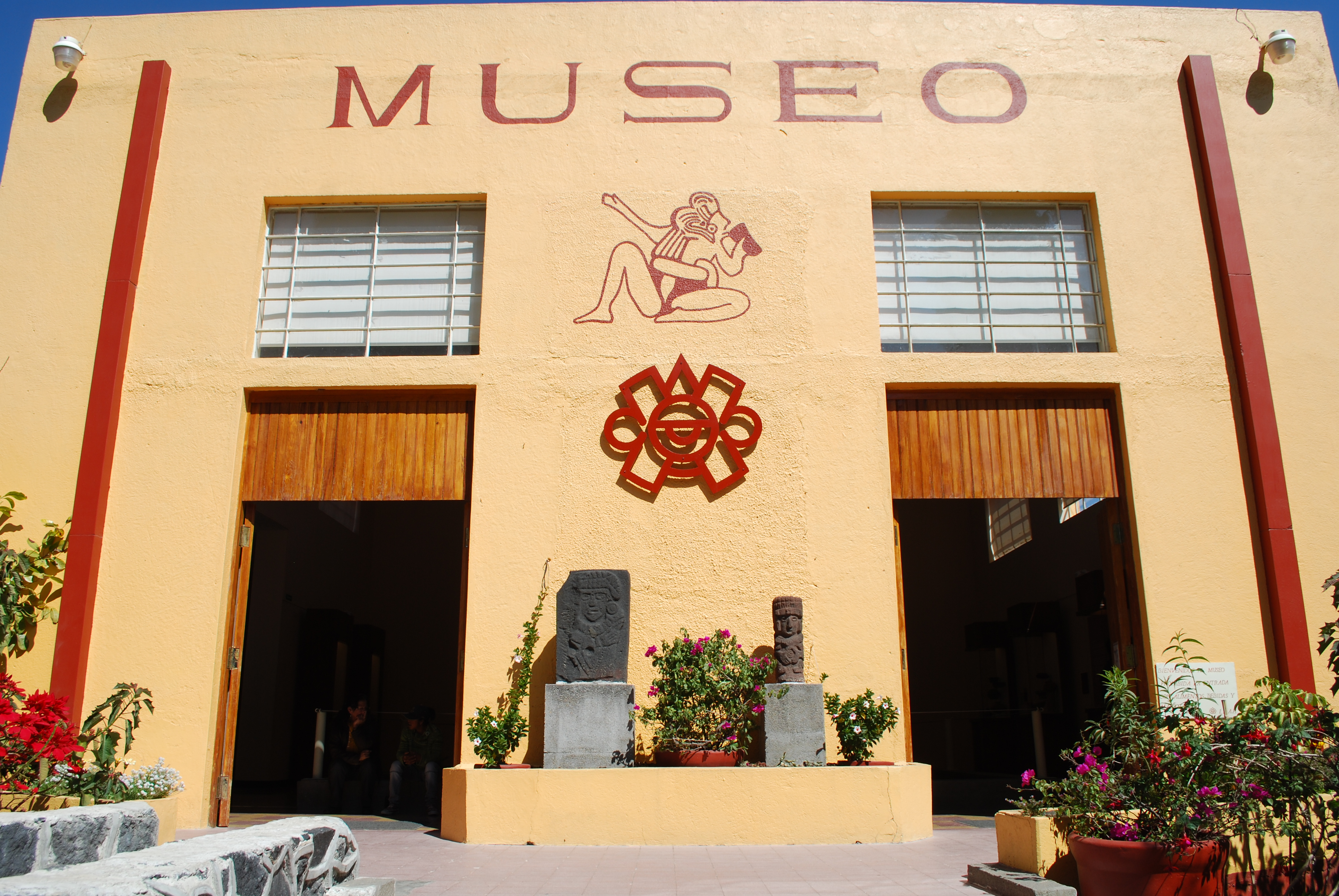 Entrance to the site museum of the Pyramid of Cholula, Puebla, Mexico